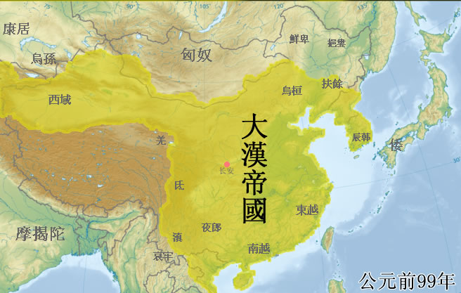 Western Han Dynasty